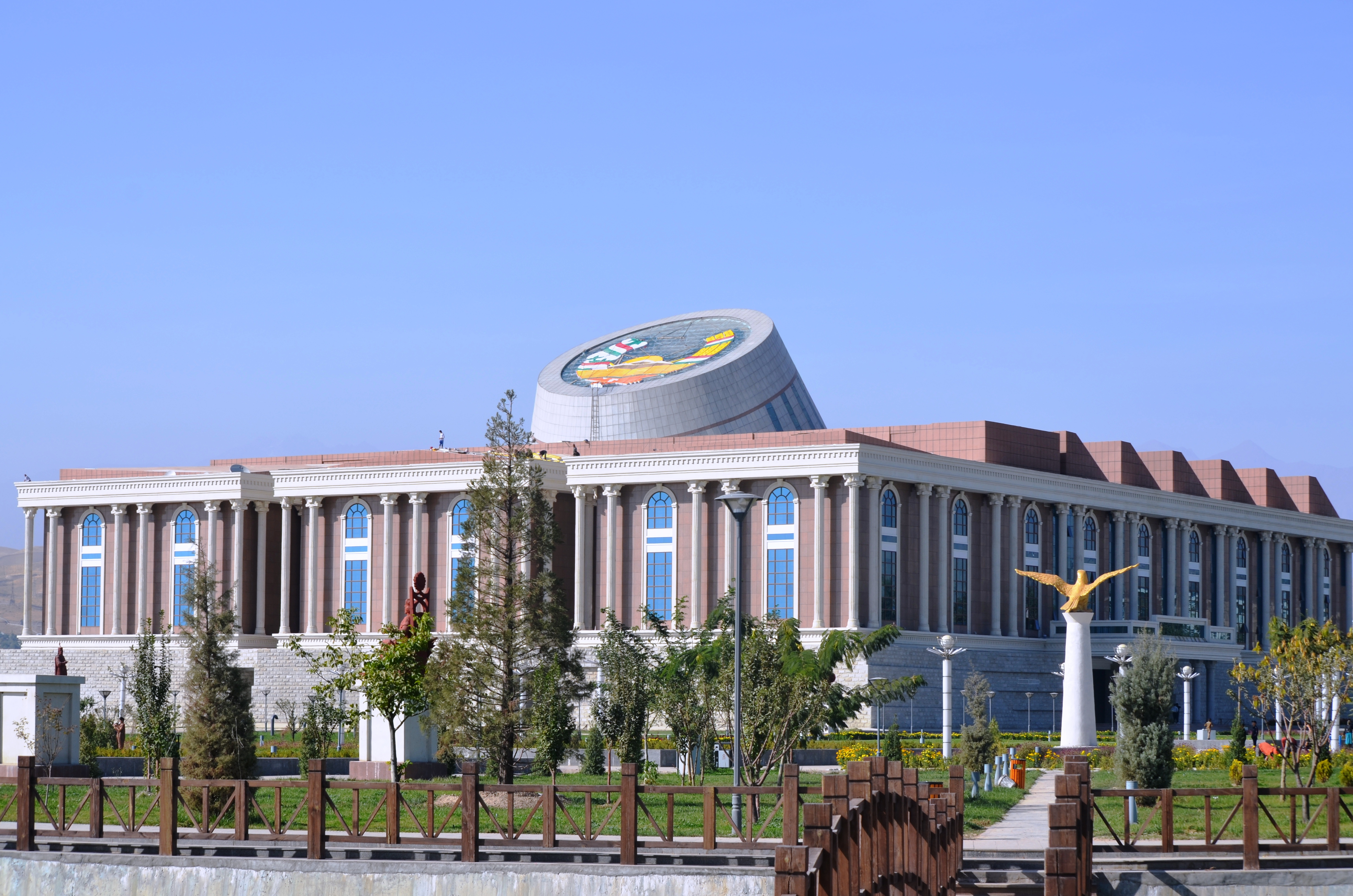 National Museum of TajikistanТоҷикӣ: Осорхонаи миллии Тоҷикистон